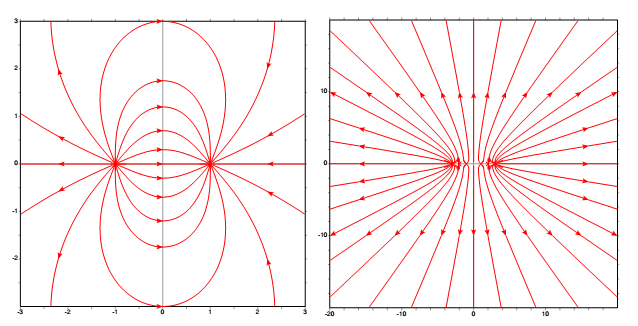 Campo elétrico criado por um dipolo